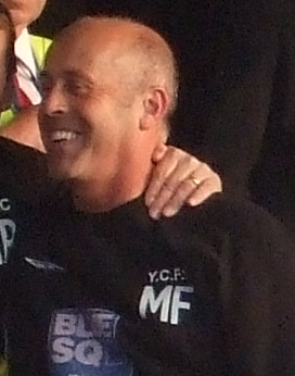 Martin Foyle